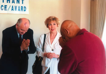 Mikhail Gorbachev his wife Raisa and Sri Chinmoy 1994..